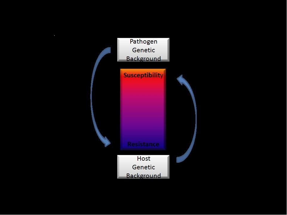 Figure 3:Shows the effects of polymorphisms in genetic backgrounds. Variant genetic backgrounds in host IRGs can lead to increased susceptibility of the pathogen. Variant genetic backgrounds in pathogens can lead to increased resistance to innate immune factors including IRGs.